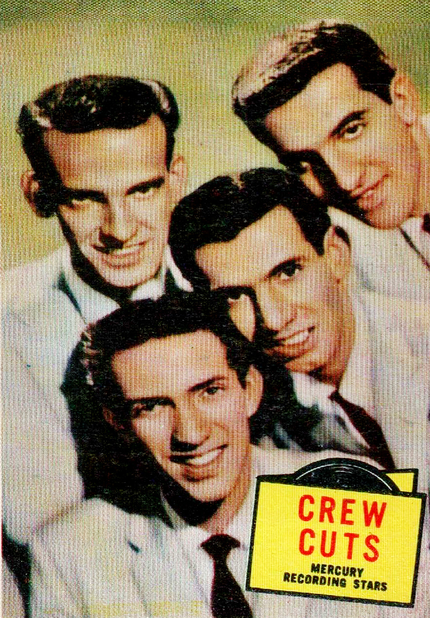 Trading card photo of The Crew-Cuts. In 1957, Topps gum cards issued a series of movie stars, television stars and recording stars. They were part of their recording stars cards.